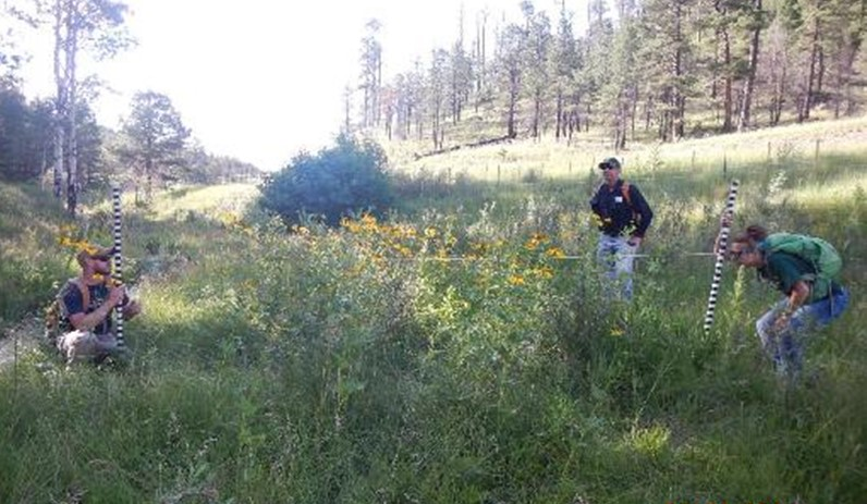 This particular assessment was not to locate New Mexico Meadow Jumping Mice but focused on determining the presence or absence of the mouse’s habitat. It determined if vital components including, tall dense leafy vegetation were present within these areas. The Rapid Assessment team consisted of Forest Service wildlife and range personnel, a permittee and individuals from the University of Arizona Extension (U of A). Forest Service wildlife employees included Jered Garvin, Zach Foster, Loren LeSueur, Will Kriesel, Karen Lowry, Dakota Lovelace, Sydney Brown, Mike Finley, Phil Dobesh and Linda White-Trifaro. Participants from the Forest Service range department were Ron Mortensen, Mark Willis, Curtis Chee, Dave Evans, Justin Poulter, and Jeremiah Burnett. Helping out from the U of A were George Ruyle, Sarah Noelle, and Rachel (?). Also an allotment permittee, Wink Crigler donated her time to assist with the study. From August 3 - September 15, 2015, the team surveyed about 33.5 miles of stream course. The assessed streams encompassed Boggy Creek, Nutrioso Creek, the San Francisco River, East and West Fork Black River, and East and West Fork Little Colorado River. A huge thank you goes out to all those who contributed to the successful completion of the “Rapid Assessment of New Mexico Jumping Mouse” in these areas. This fast track assessment gave U.S. Fish and Wildlife Service the information they need to help determine if “Elements of Critical” Habitat exist in the proposed areas.